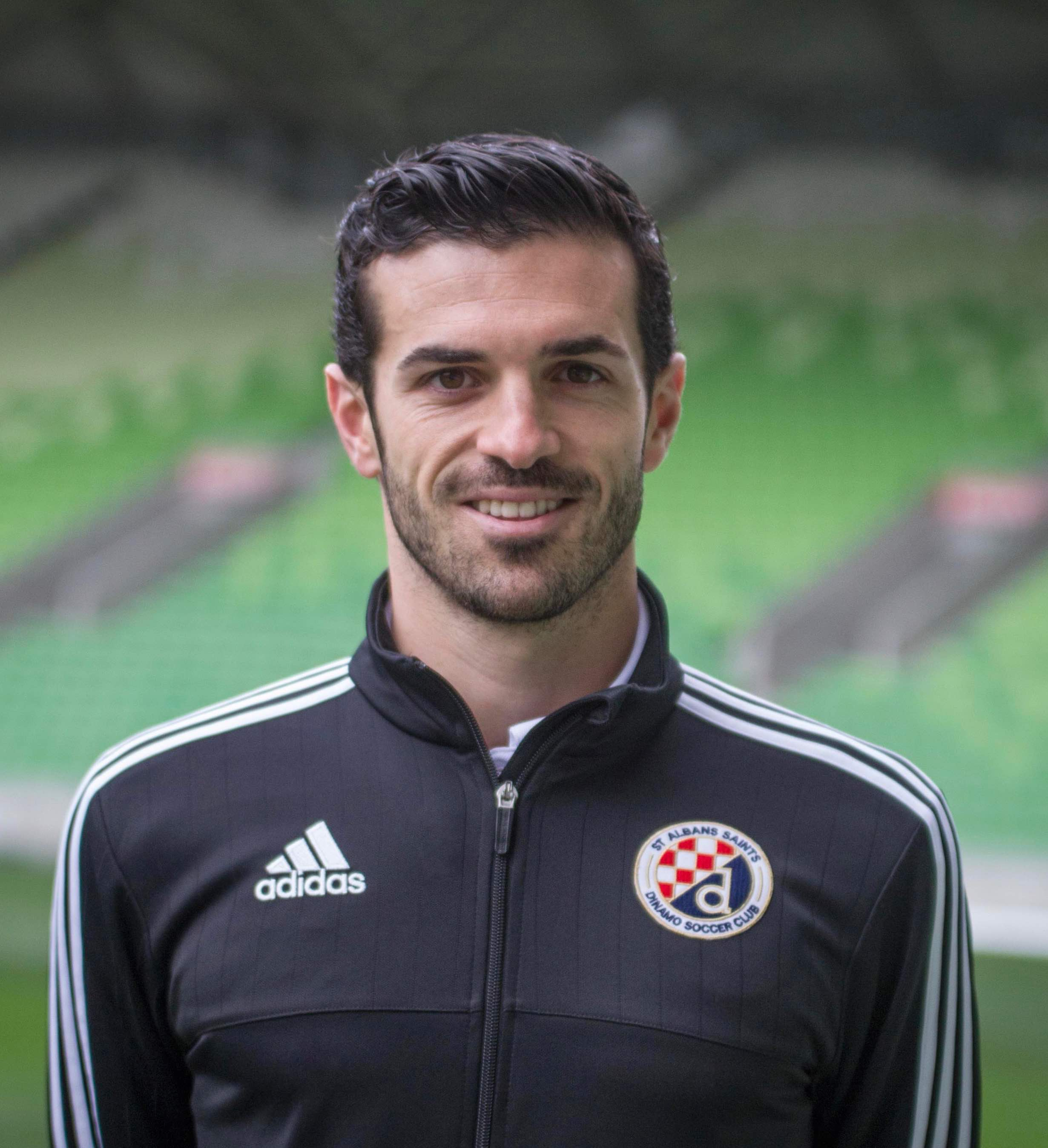 National Premier League Australia 2016